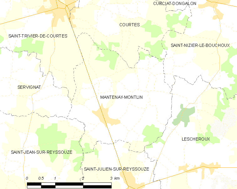 Map of French commune: Mantenay-Montlin Map commune FR insee code 01230.png